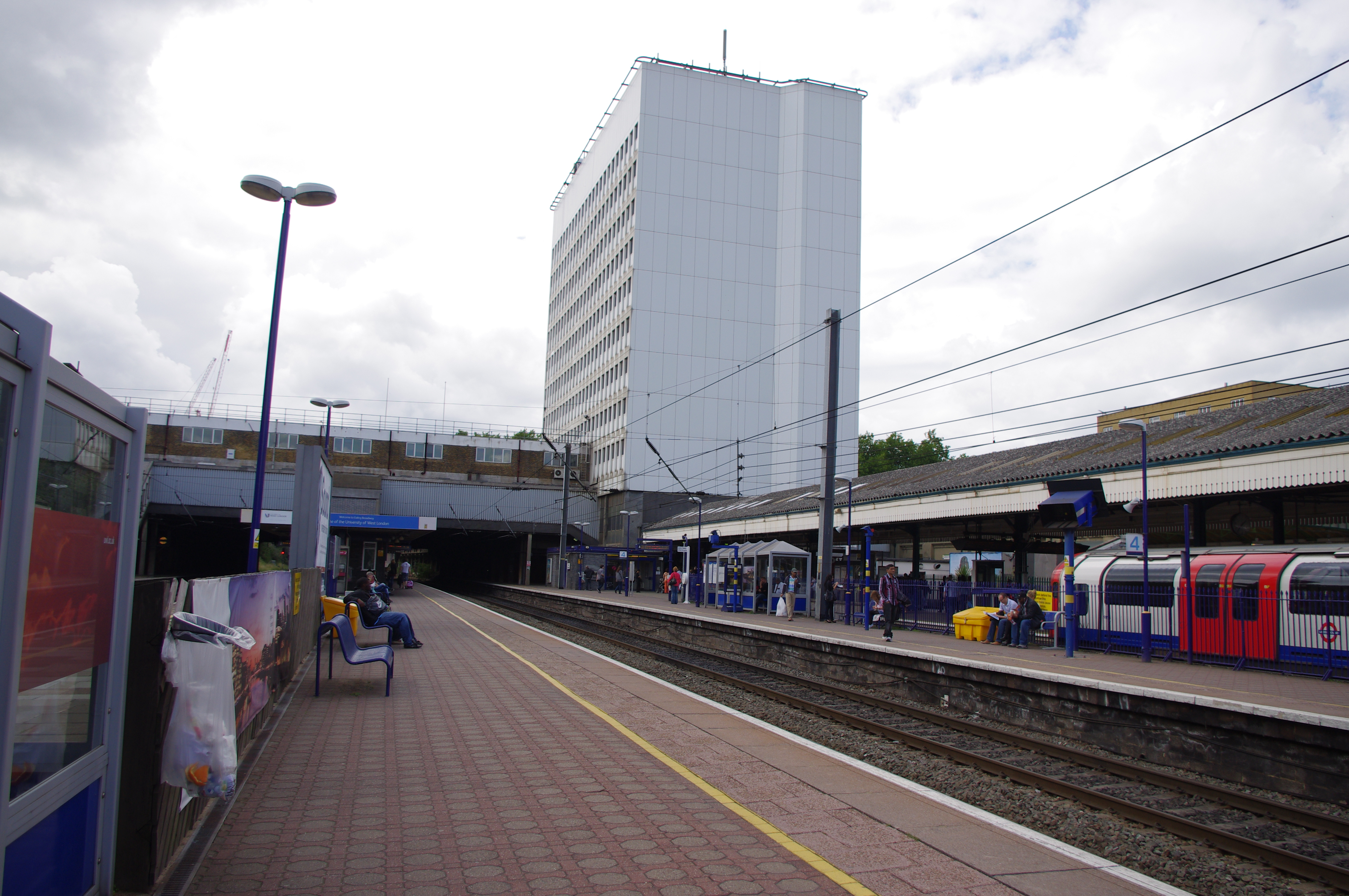 Ealing Broadway Westbound